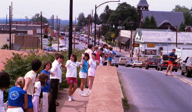 "Hands Across America" - May 25, 1986 (courtesy of Judy Christensen)